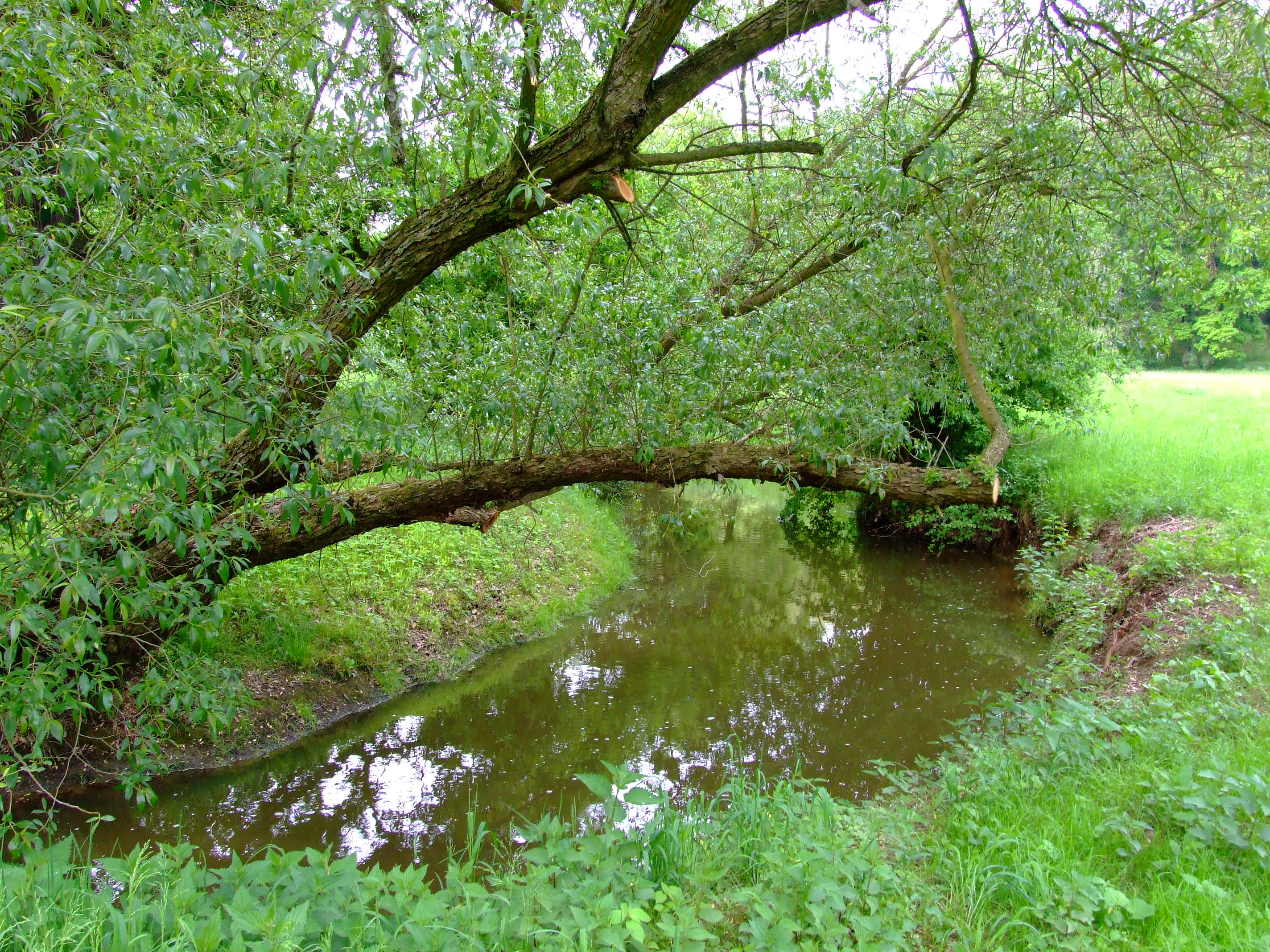 Botič in the Průhonice chateau park near Prague, Central Bohemian region, CZ